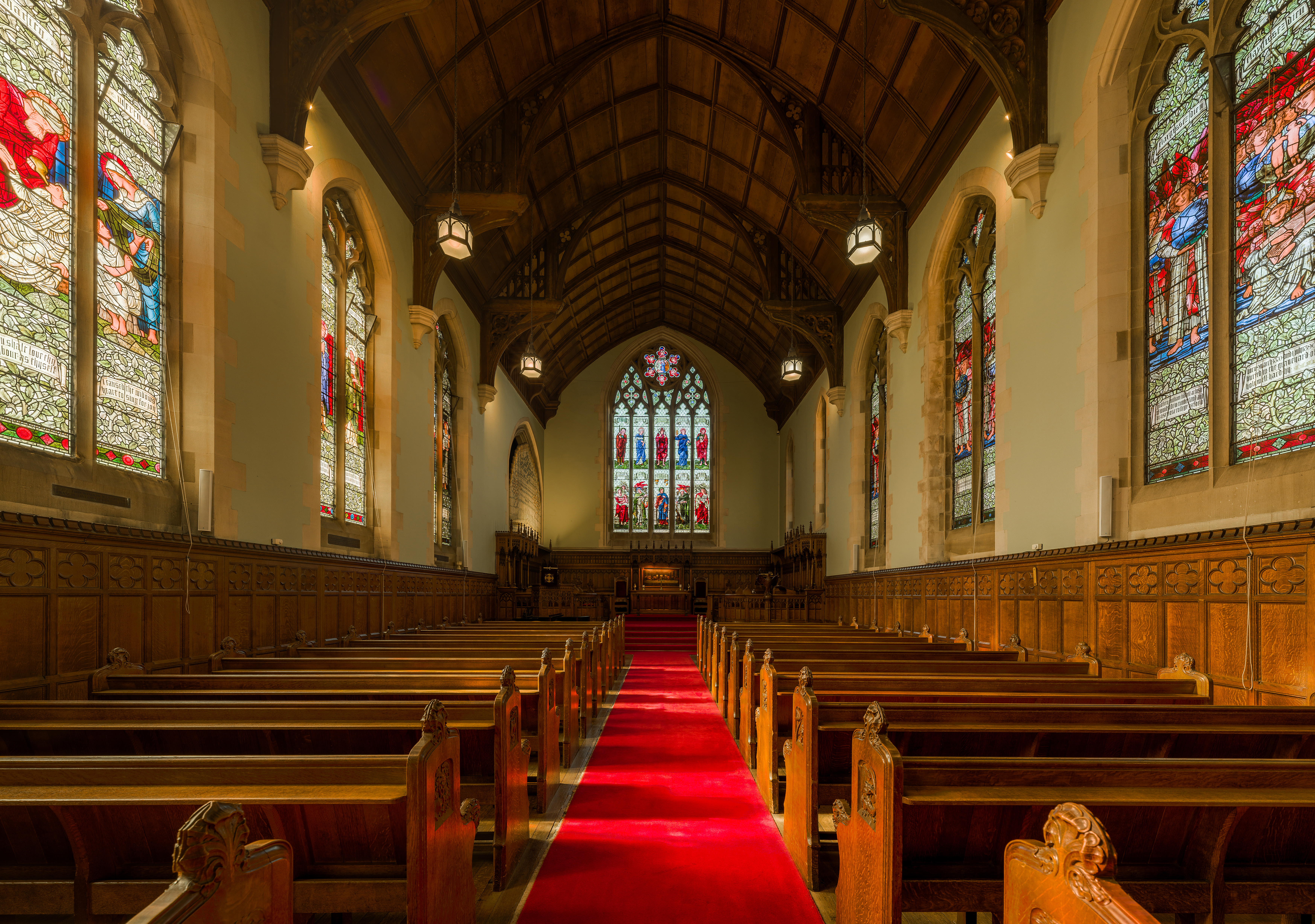 The interior of Harris Manchester College's chapel in Oxford, England.